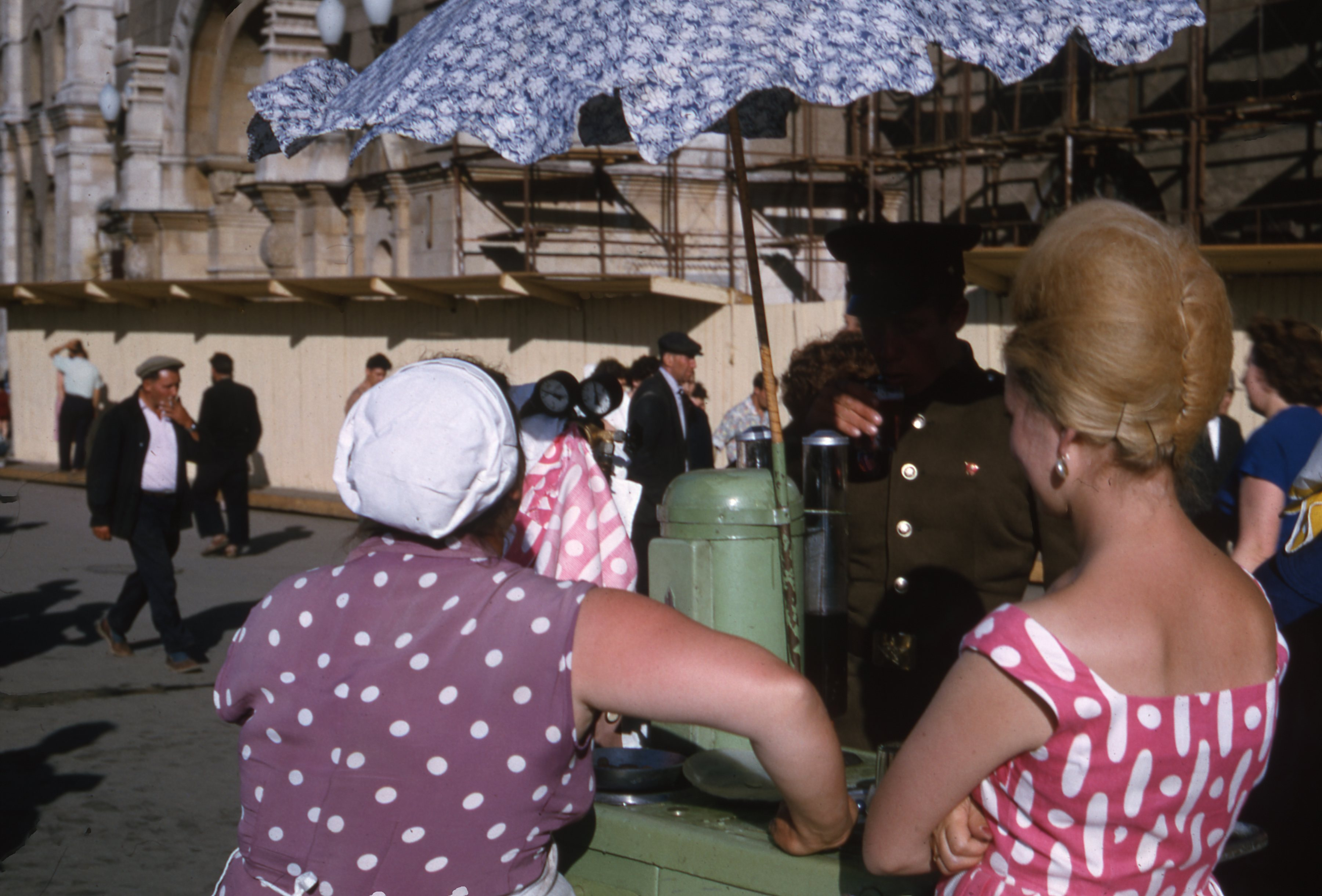 These images were taken by Thomas T. Hammond during his trip to the Soviet Union. This specific image features street scenes of Moscow.